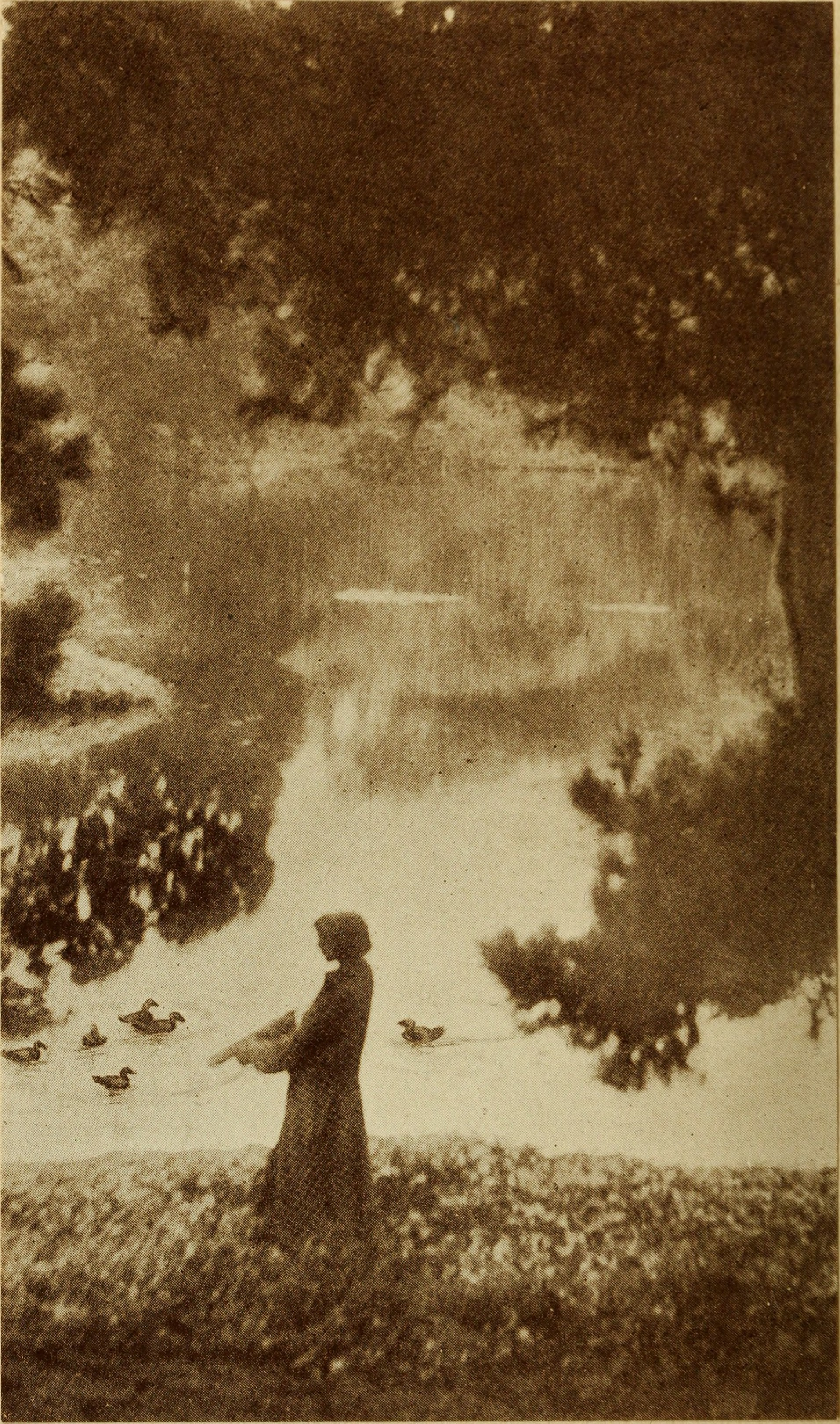 Title: Katie of birdland : an idyl of the aviary in Golden Gate Park Year: 1917 (1910s) Authors: Stellmann, Edith Kinney Stellmann, Louis J. pbl H.S. Crocker & Co. pbl Subjects: Talking birds Publisher: San Francisco : H.S. Crocker Co. Text Appearing Before Image: l, I thought tomyself, as I hurried along the path,even though I do get a drenching. But the owls glared at me uncom-prehendingly. The one, who had fore-told the shower, had his head perkedon one side in a very saucy way asthough he was thoroughly enjoying thediscomfiture of those who didnt takeadvantage of his weather prophecy. Itried, in vain to talk to him butcouldnt make myself understood.Though he and his mates were mutter-ing, not a sound was intelligible to myears and I was forced to admit thatthe magic of the day was over-I nolonger understood bird lore. Perhapsthe rain dispelled it; perhaps it requiredthe presence of a bird sister. That is aproblem I have yet to solve. Text Appearing After Image: Katie o/Birdland An Idyl of the Aviary in GoldenGate Park t By Edith Kinney Stellmann oAuthor of Exposition Babies Illustrated with Special Camera Studies by Louis J i Stellmann San Francisco H/S/Crocker Company Publishers M Copyright, 1917 Louis J. Stellmann San Francisco Dedication Oh, birds: lucky creatures of air!Whose wings bear you swiftly on high To a place where you scan All the doings of ZMan,^o you laugh at him, birds, on the sly— When he foolishly shows oAll the little he knows;—Or do you look down with a sigh? —Edith Kinney Stellmann m KATIE o/BIRDL AND KATIE of BIRDLAND